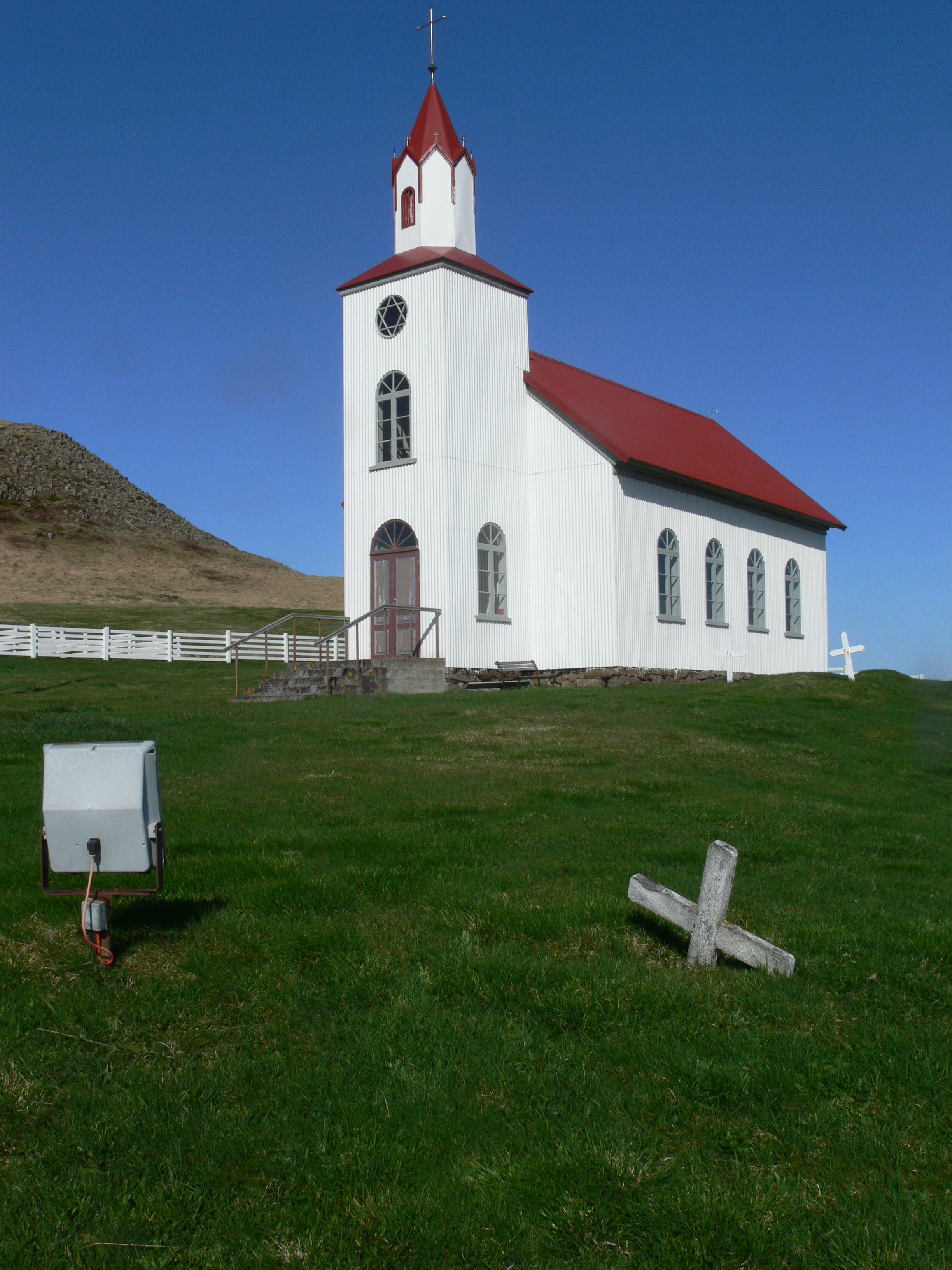 Helgafell bei Stykkishólmur. Hier lebte und starb Guðrún, eine der Hauptpersonen der Laxdæla saga. Sie ist auf dem Friedhof der Kirche begraben.